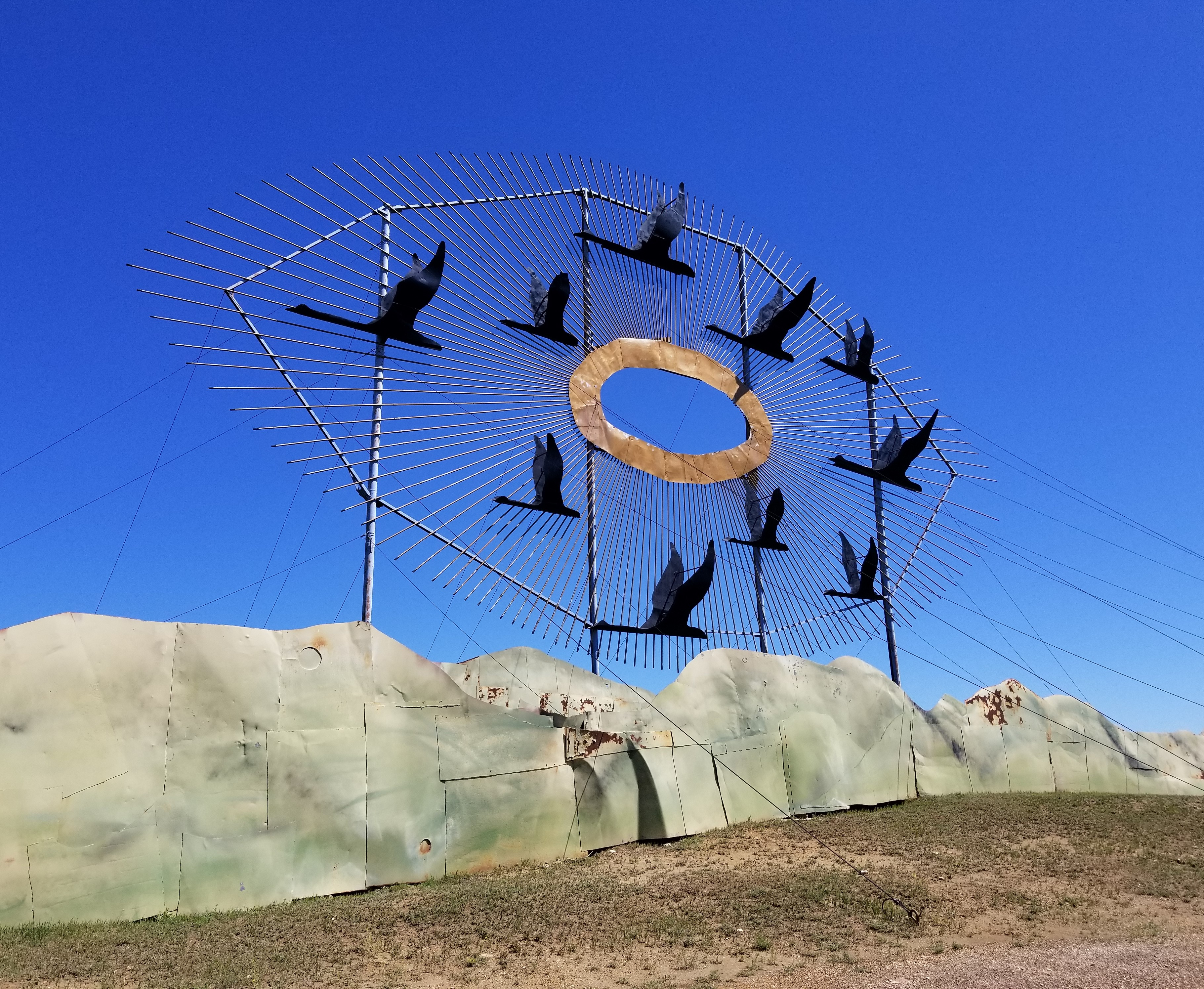 Close-up photo of the scrap metal artwork Geese in Flight, one of the scrap metal artworks along North Dakota's Enchanted Highway